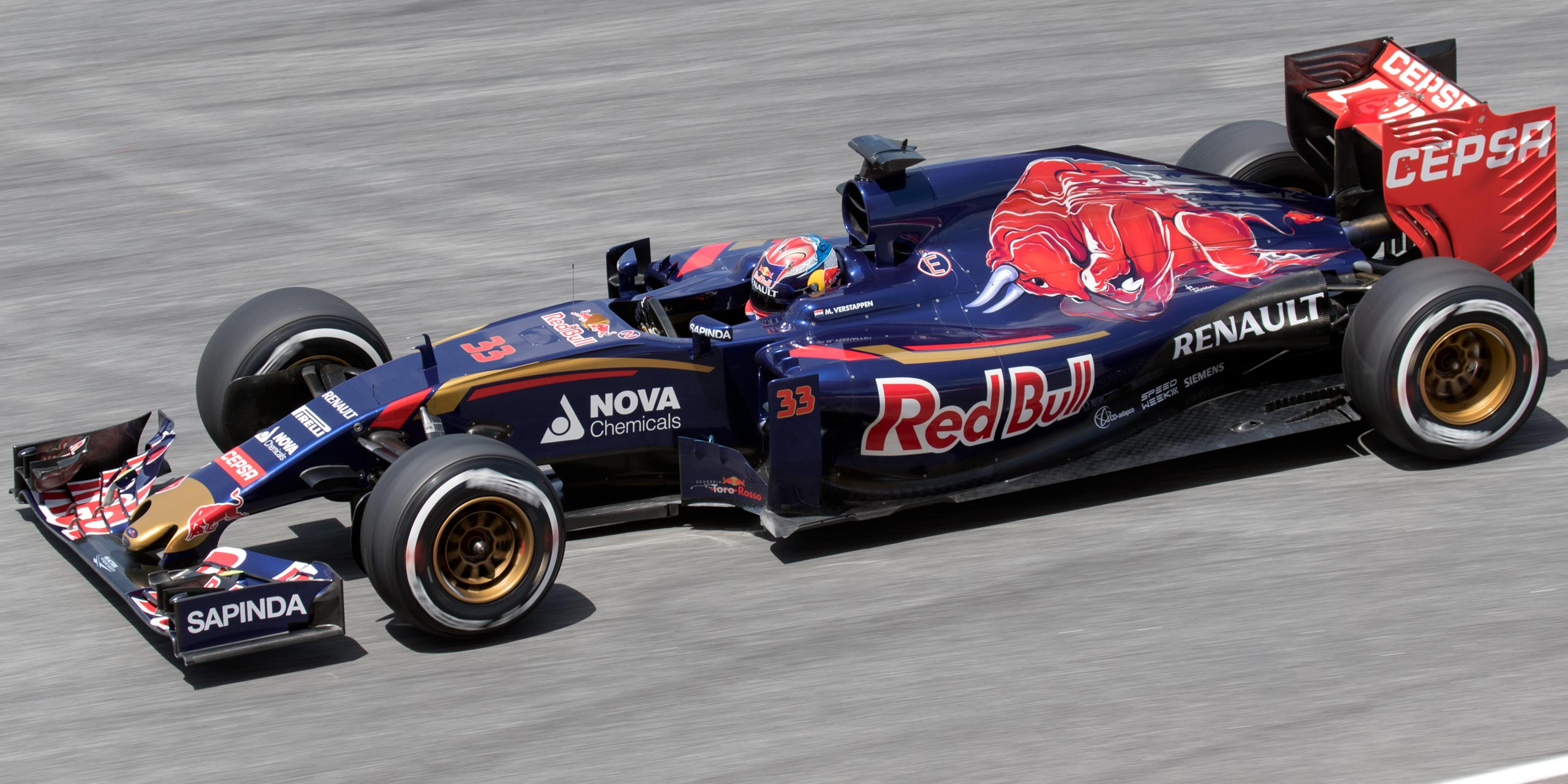 Formula One 2015 Rd.2 Malaysian GP: Max Verstappen (Toro Rosso)